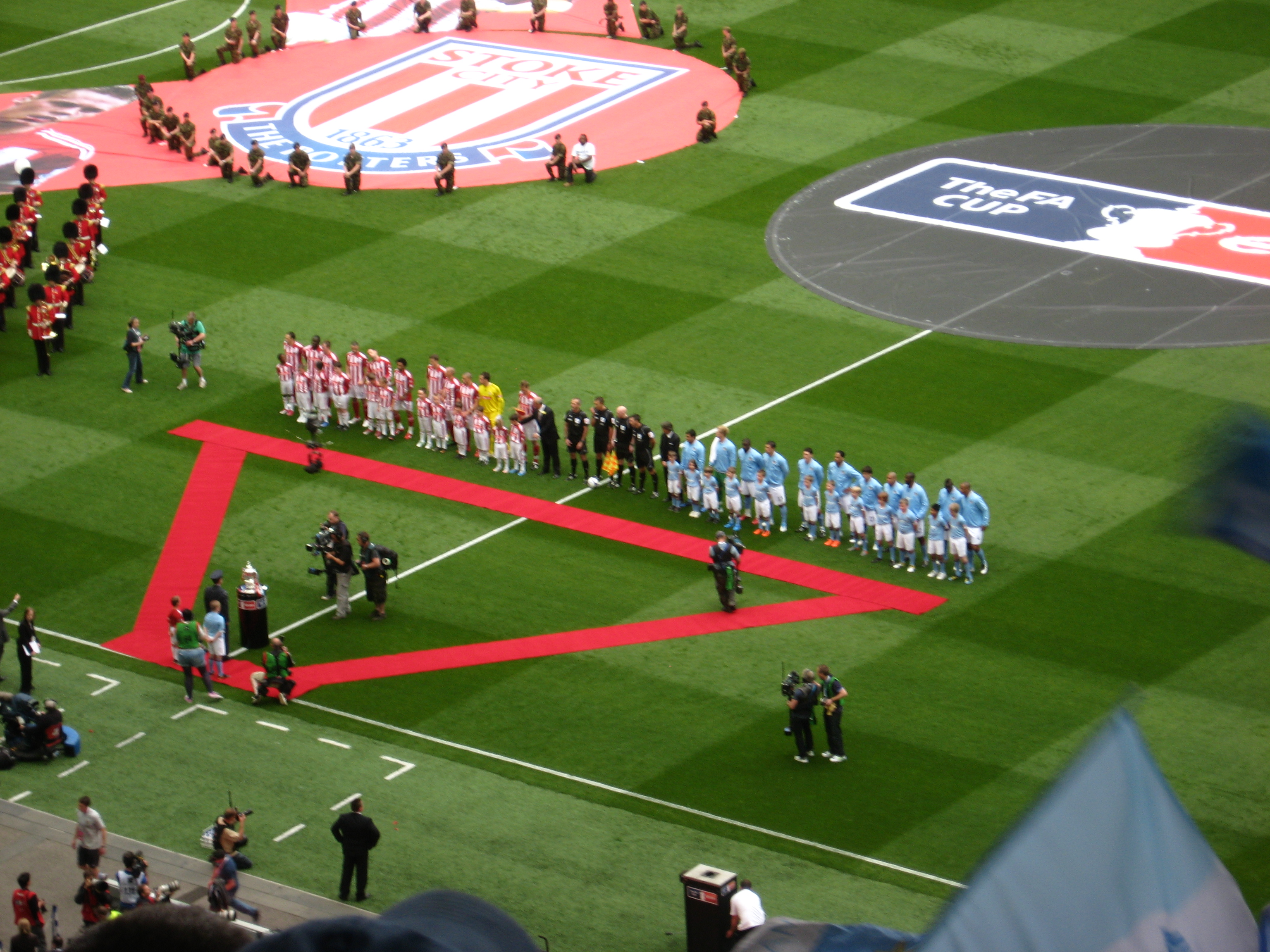 2011 FA Cup Final between Manchester City and Stoke City at Wembley Stadium. The teams line up before the match. Stoke City (red and white) on the left, Manchester City (blue) on the right.